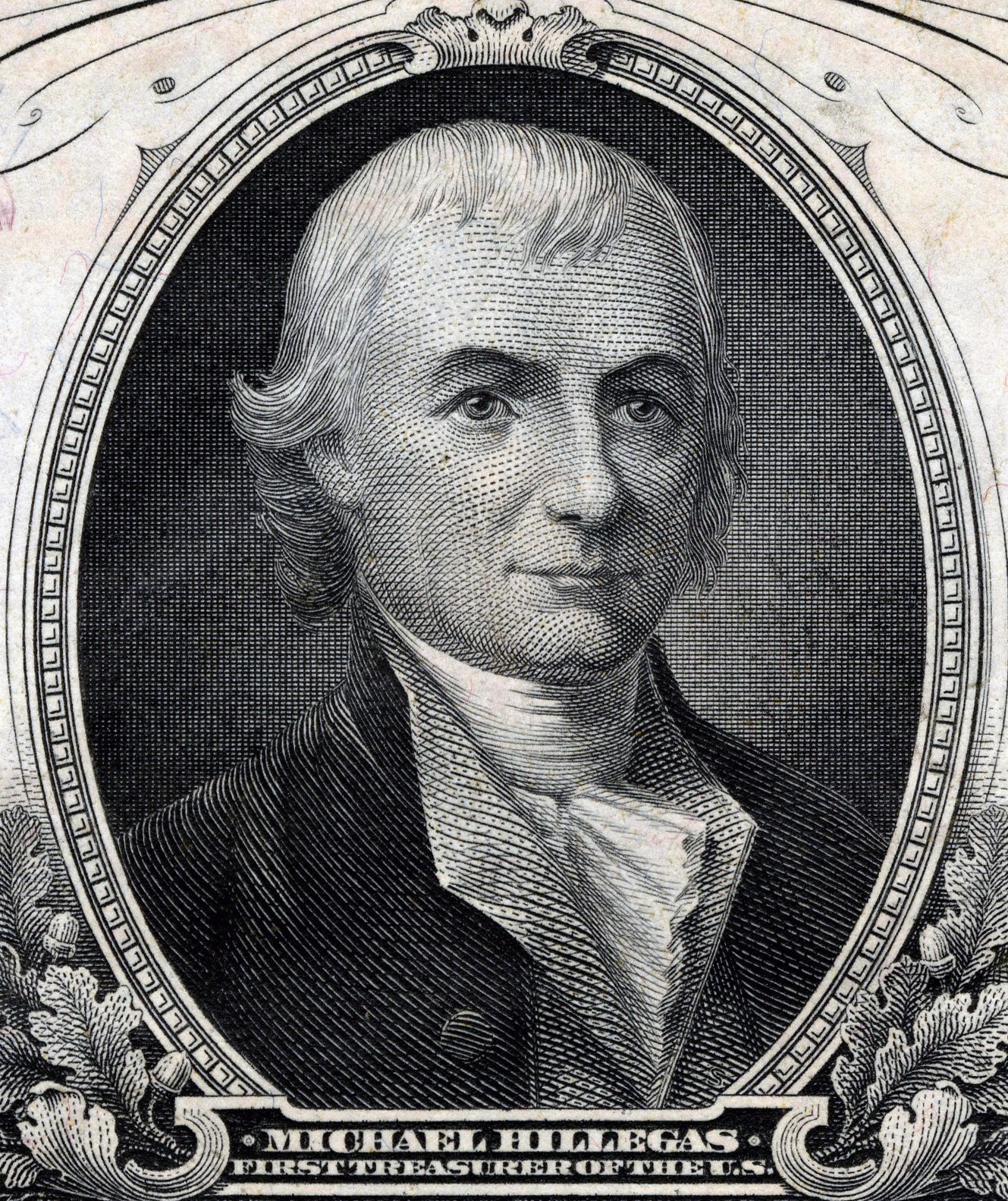 Engraved portrait from United States Currency